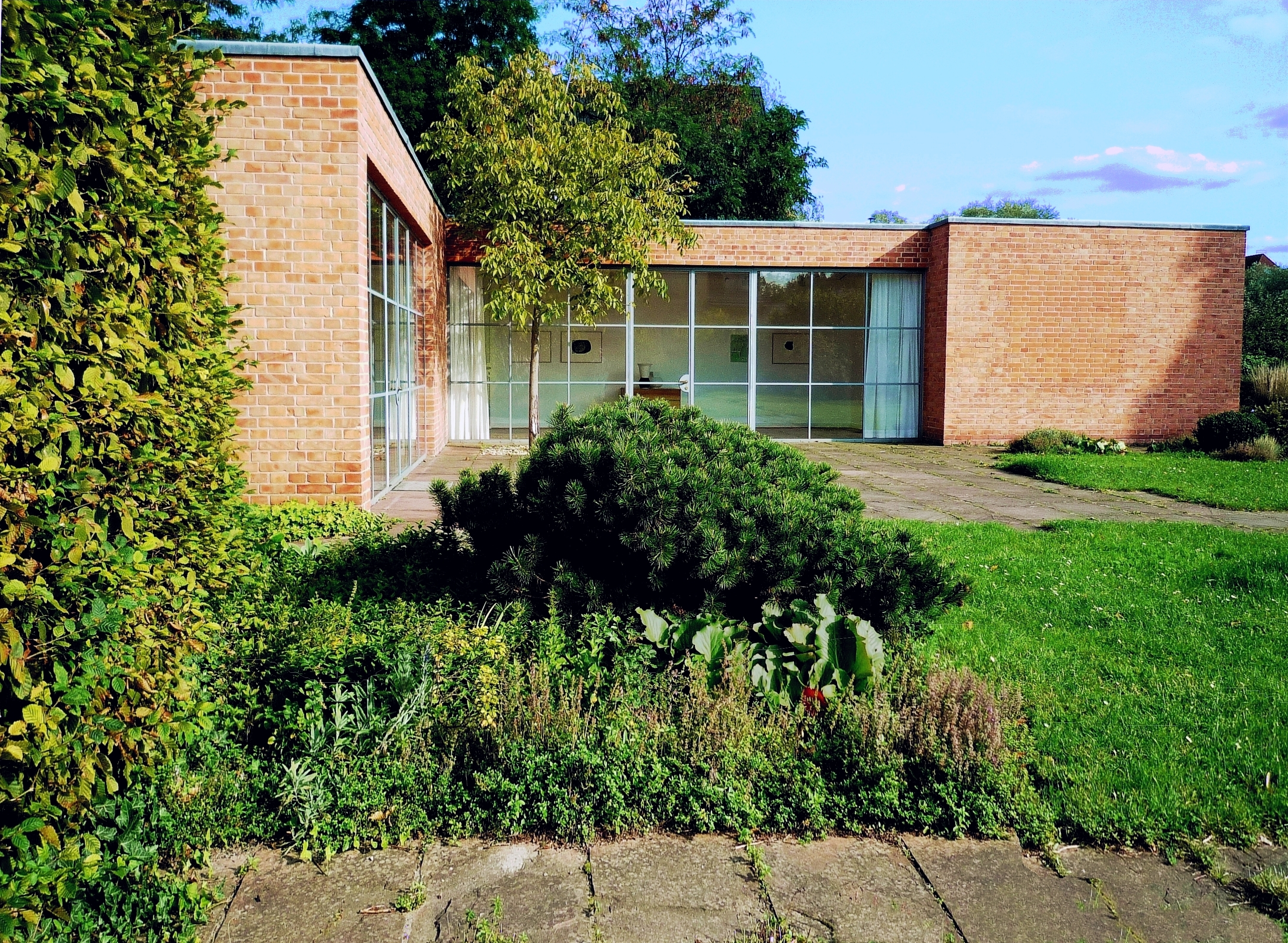 The Villa Lemke, built 1932/33 in Berlin-Weissensee (Germany). The architect was Mies van der Rohe (1886-1969). Today the building is visited as a monument of architecture and used for small exhibitions of Modern Art.